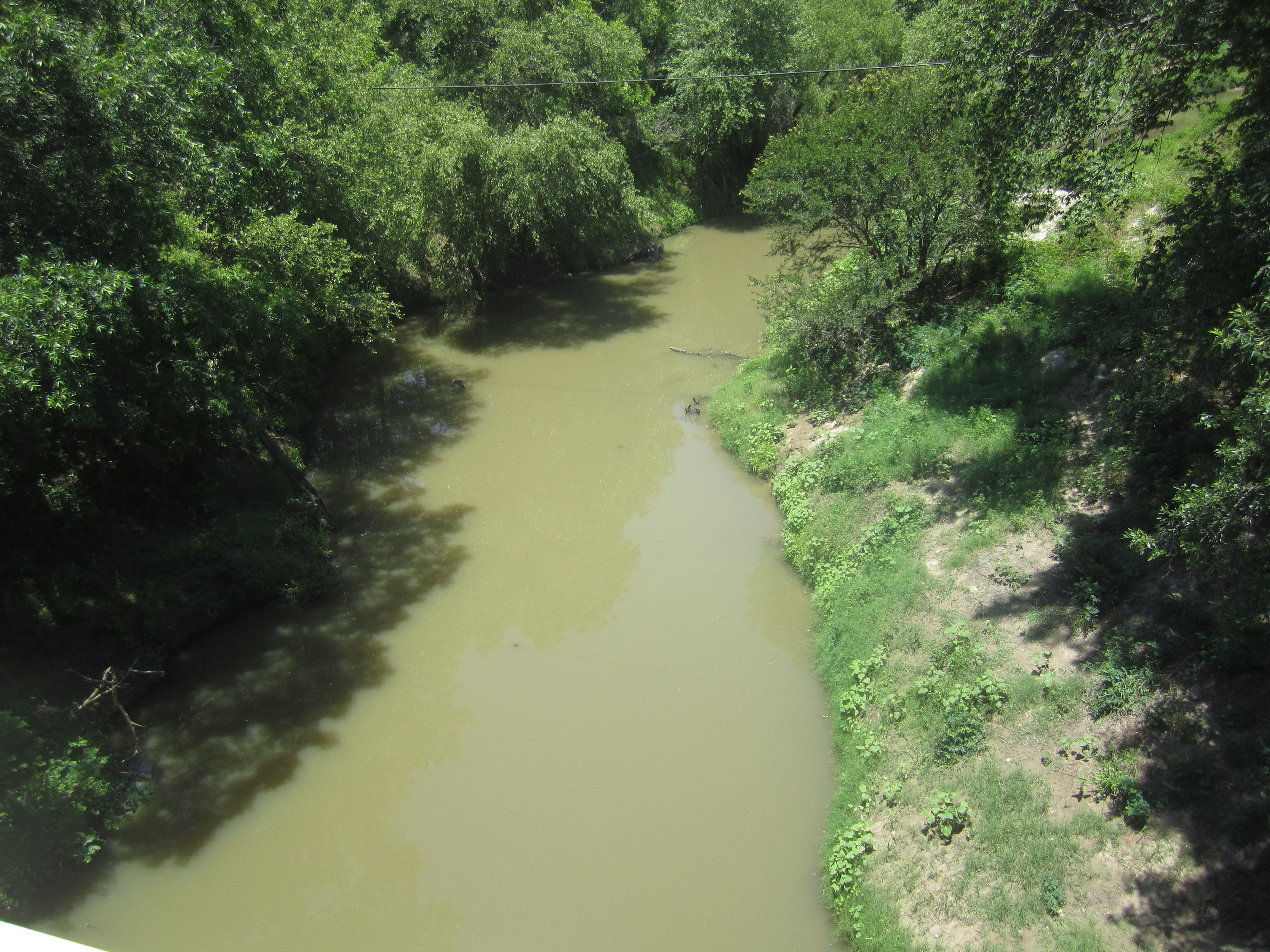 I took photo of Navasota River between Leon and Robertson counties in TX on June 1, 2012, with Canon camera.